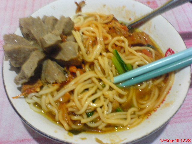 Wonogiri chicken noodle, popular food from Wonogiri